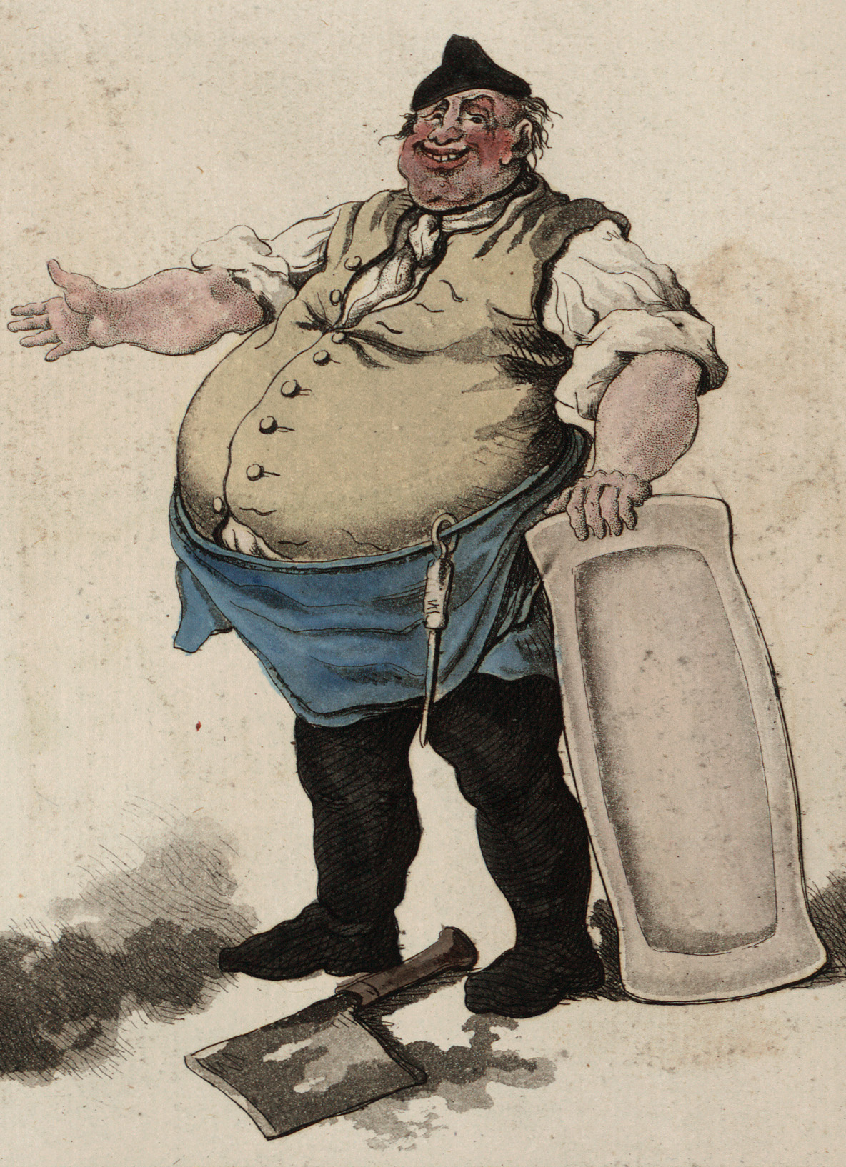 Title: An ocean of motion about Spanish commotions or the windy explosion of pot-hous oration Physical description: 1 print : etching with aquatint, hand-colored, ; 11 3/8 x 45 in. Notes: Associated name on shelflist card: J. Wright.; This record contains unverified data from PGA shelflist card.; drawn by W.H. Pyne ; engraved by J. Wright.; Title from item.